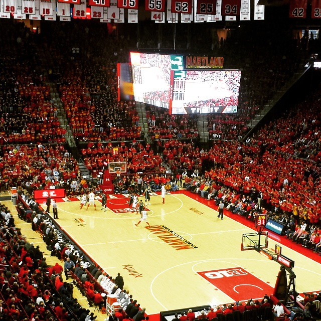 The file is a picture of the seating bowl at the Xfinity Center during a Maryland basketball game against Michigan State in January 2015.